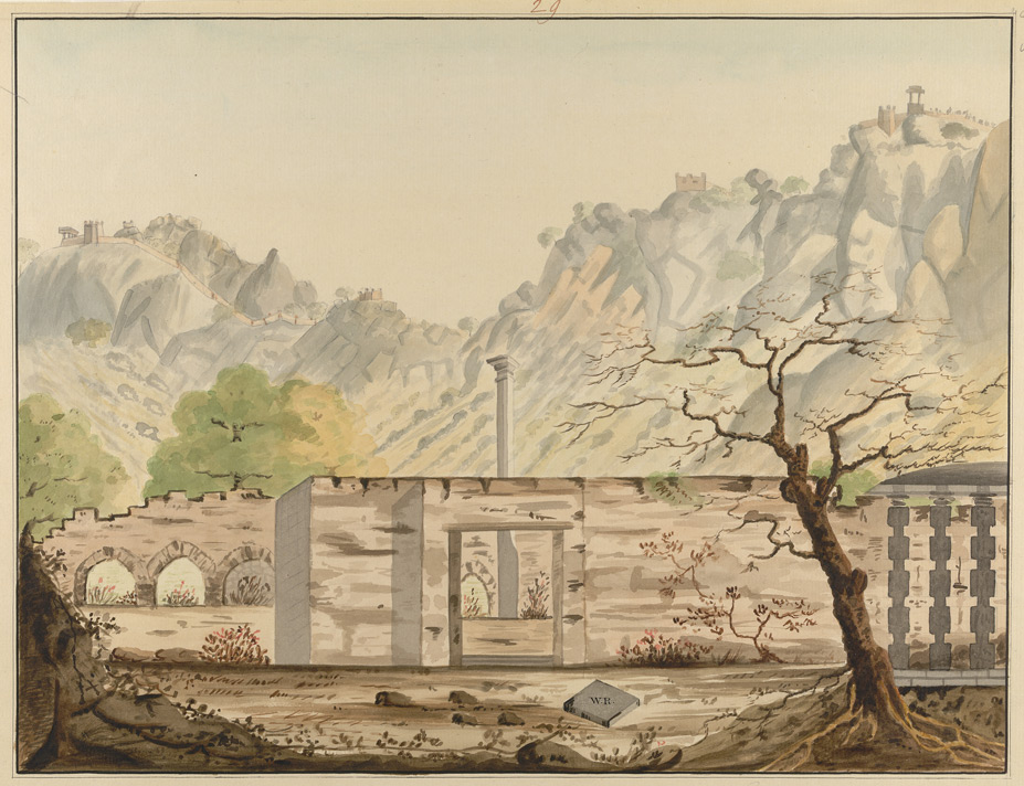 Kondavid-drug (fort)